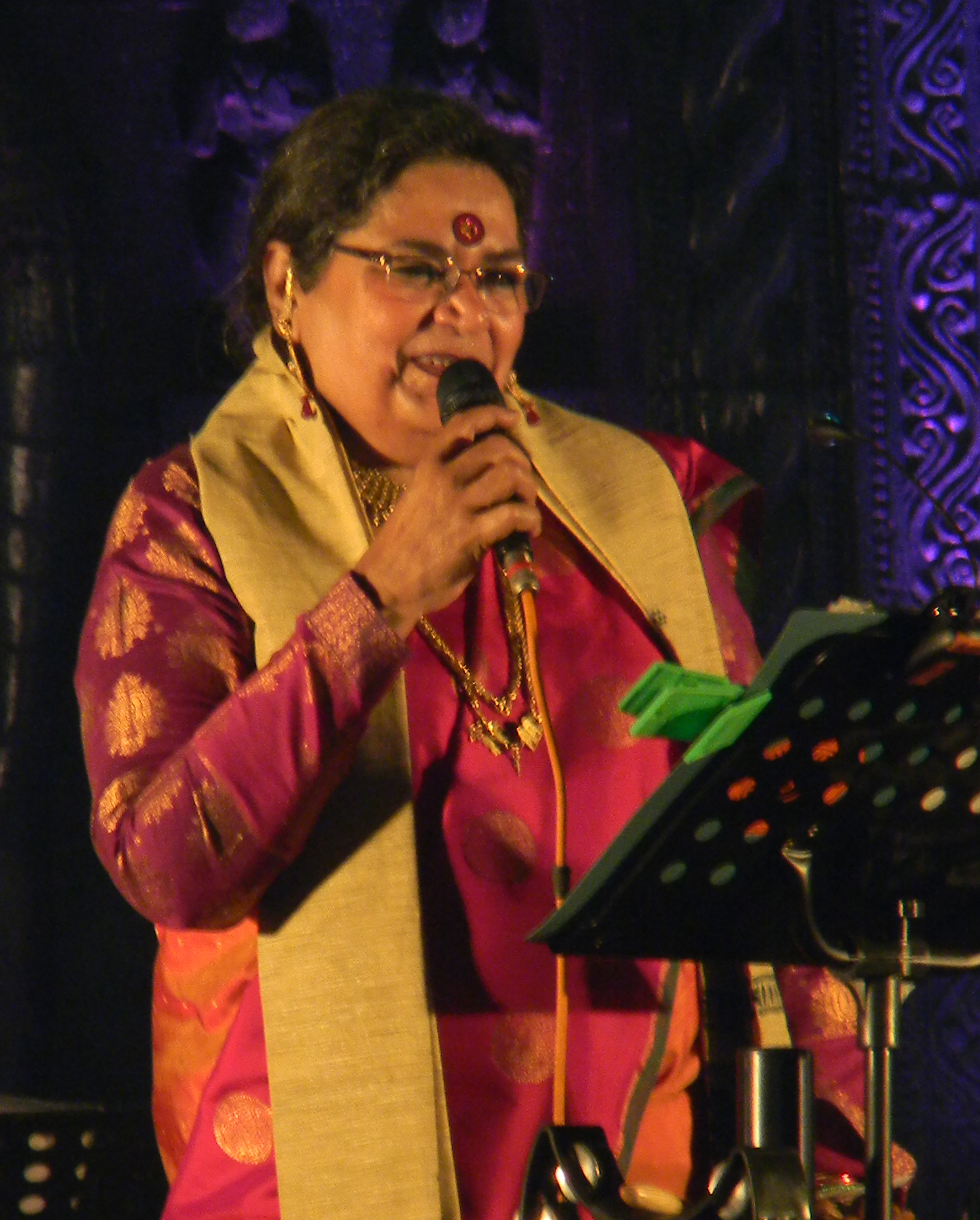 ଓଡ଼ିଆ: Usha Uthup at Toshali National Crafts Mela, Janata Maidan, Bhubaneswar, Odisha This media file is uploaded with Odia loves Wikipedia